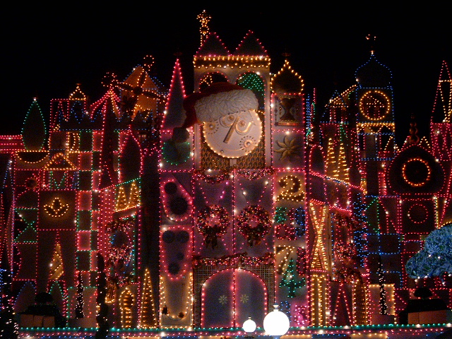 en:"it's a small world" Holiday at Disneyland, November en:2004